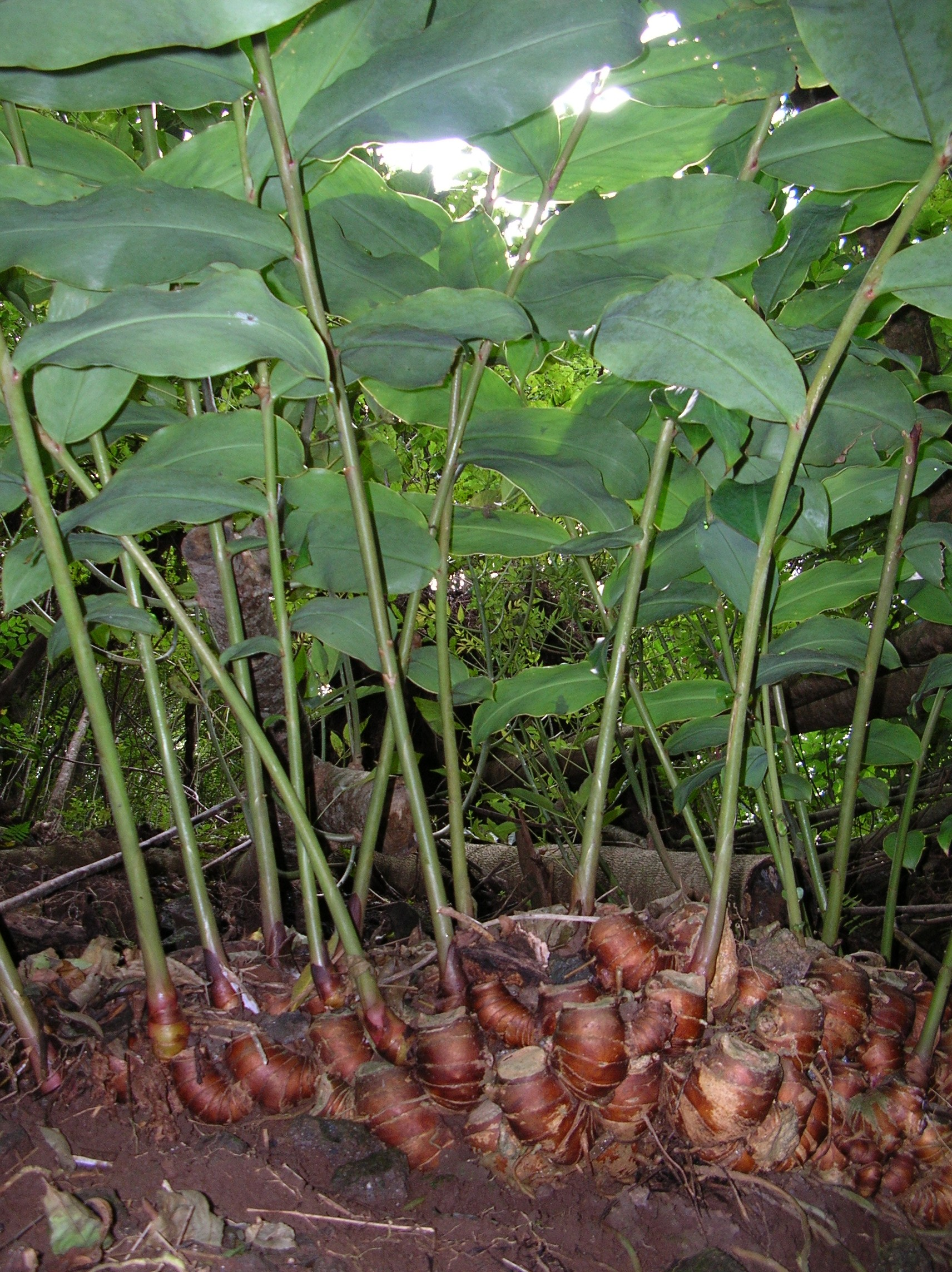 Hedychium gardnerianum (habit). Location: Maui, Makawao Forest Reserve